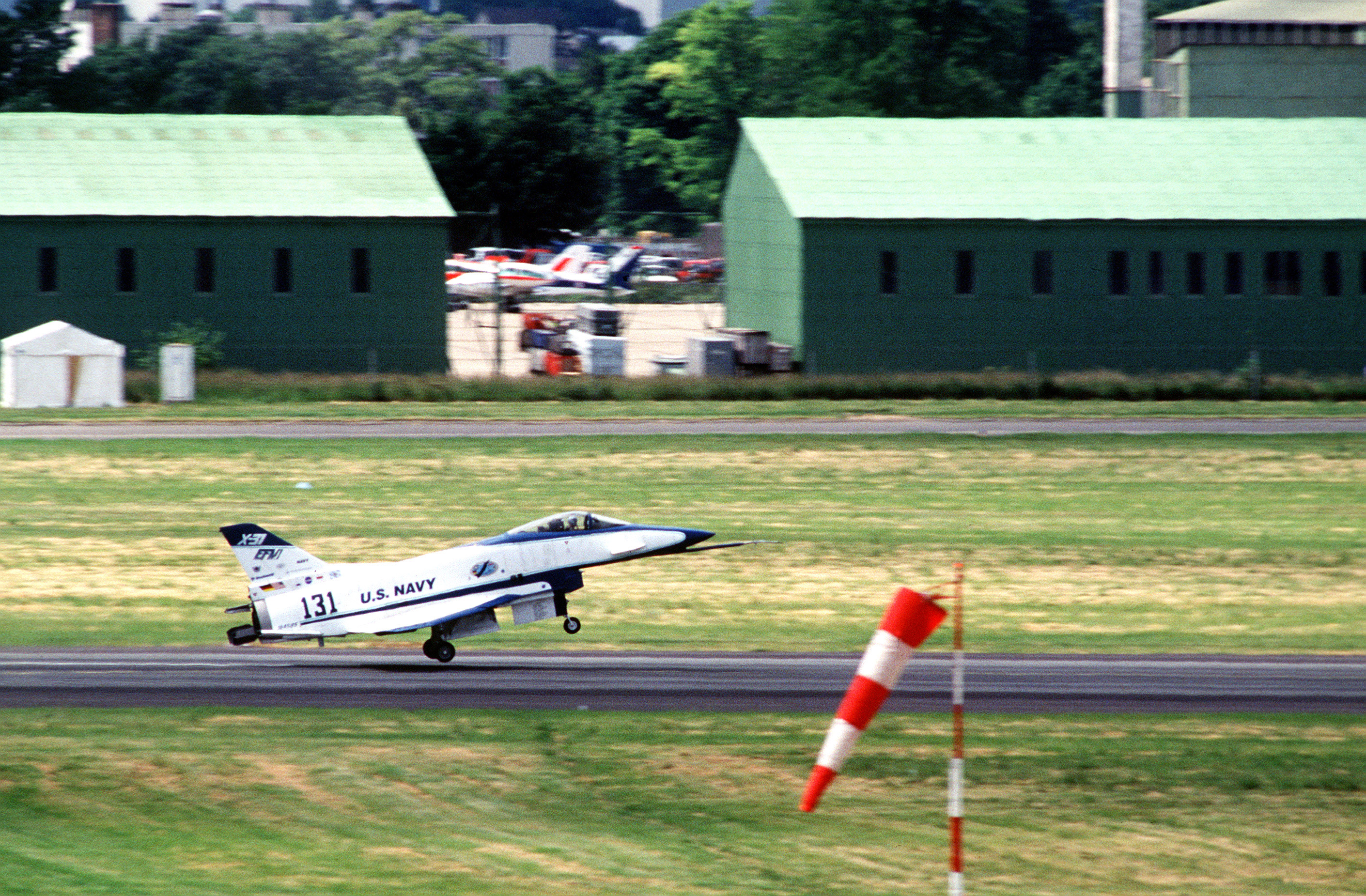 The Rockwell/Daimler-Benz Aerospace X-31 research aircraft takes off for an astounding flight demonstration at the 41st Paris Air Show. The X-31 is a collaborated research project with Germany and the United States.